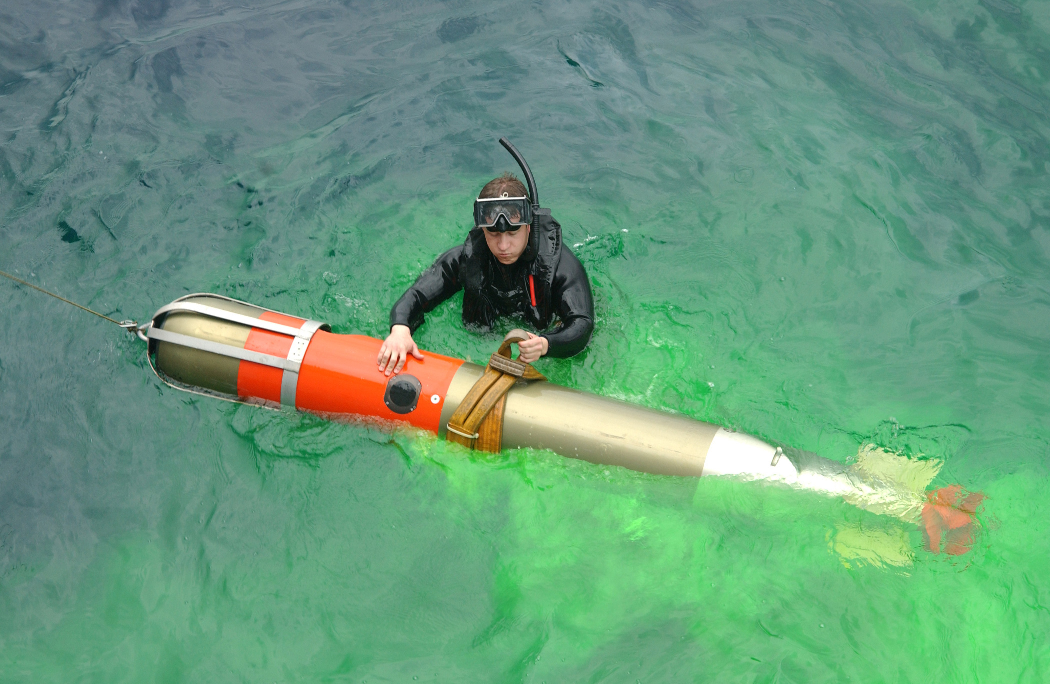 Pacific Ocean (Jan. 29, 2004) – Search and rescue swimmer Quartermaster 2nd Class Justin Peel, from Polson, Mont., secures an MK-46 exercise torpedo to be hoisted aboard the guided missile cruiser USS Vincennes (CG 49) after a successful torpedo exercise. Vincennes is participating in Multi-Sail, a combat readiness exercise in the Okinawa operational area. It’s designed to complete Surface Force Training Manual Requirements and to exercise participants in a multi-ship operational environment. U.S. Navy photo by Photographer’s Mate 2nd Class Brandon A. Teeples. (RELEASED)